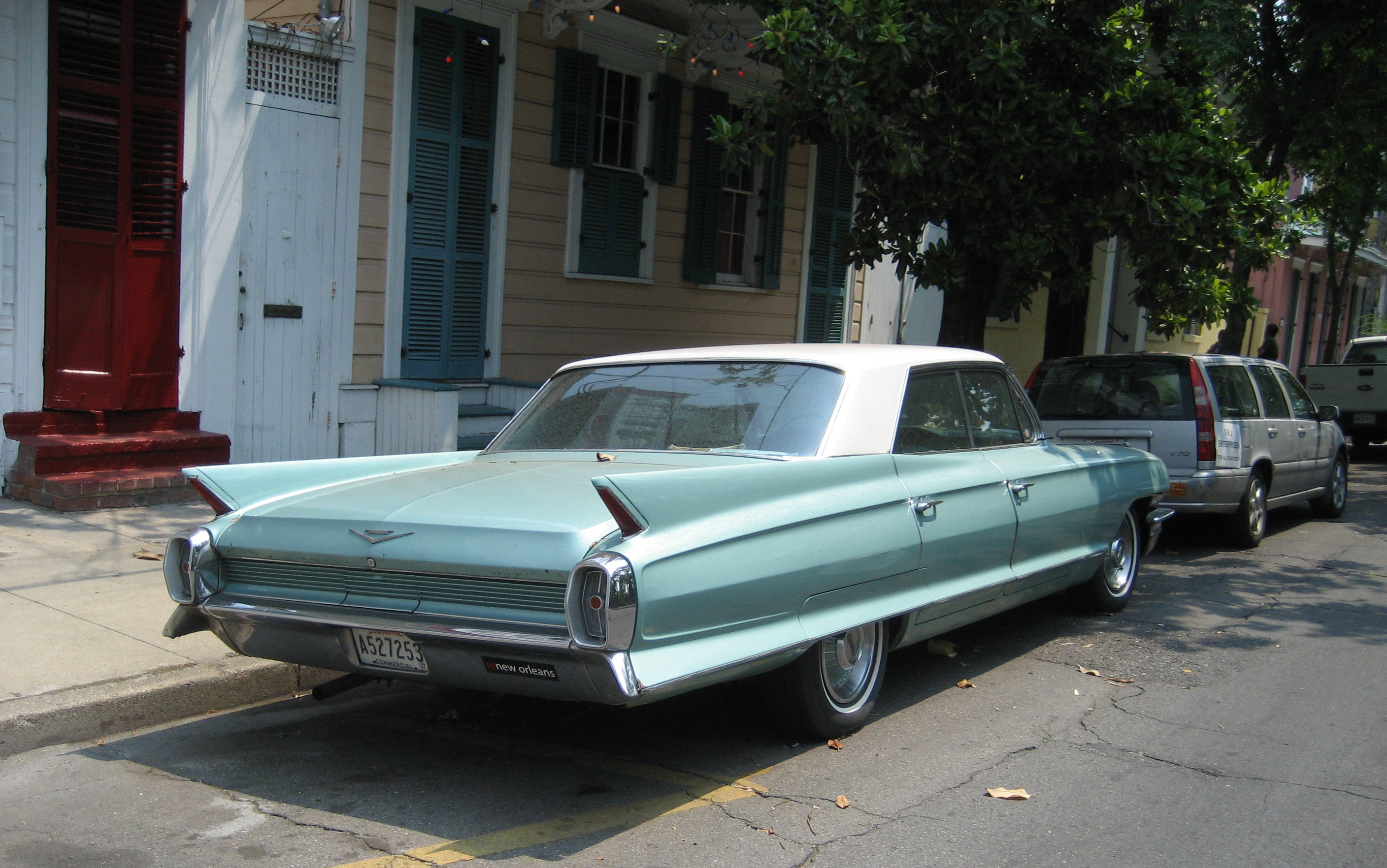 c. 40 + year old Cadillac in Faubourg Marigny neighborhood of New Orleans.